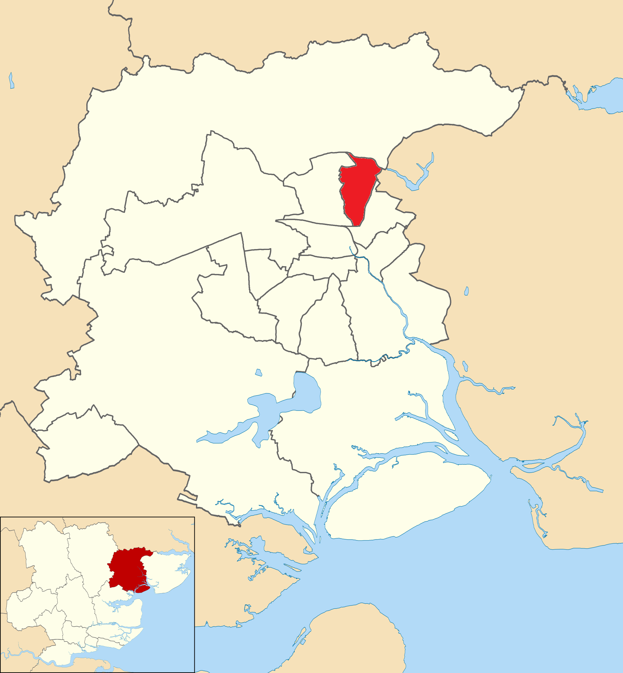 Highwoods ward highlighted within Colchester Borough